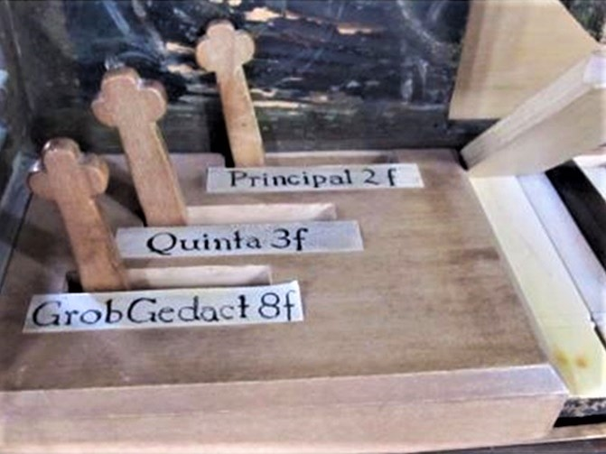 Cuntz-organ 1610: left part of the Keyboard with 3 stops